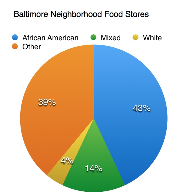 Data taken from "The Grocery Gap" study.